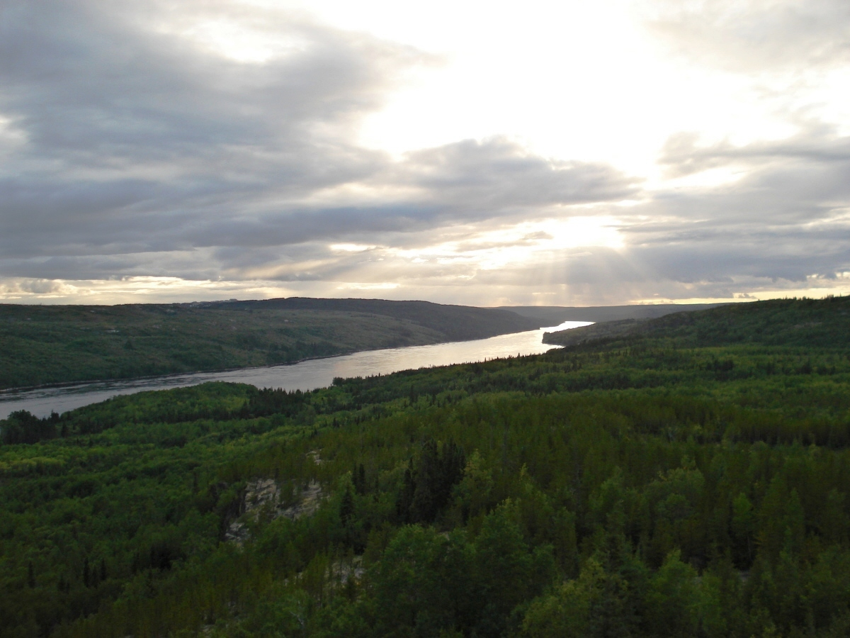 Sunset on La Grande Rivière, Quebec (near the village of Radisson).